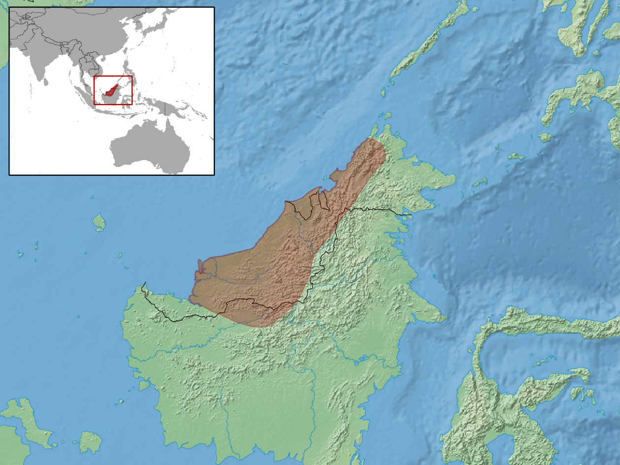 geographic distribution of Lamprolepis nieuwenhuisi (IUCN) or Lamprolepis nieuwenhuisii (RDB)